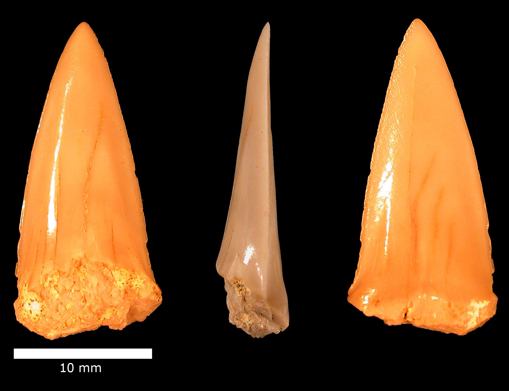 Cretoxyrhina mantelli tooth, Menuha Formation (Upper Cretaceous), southern Israel